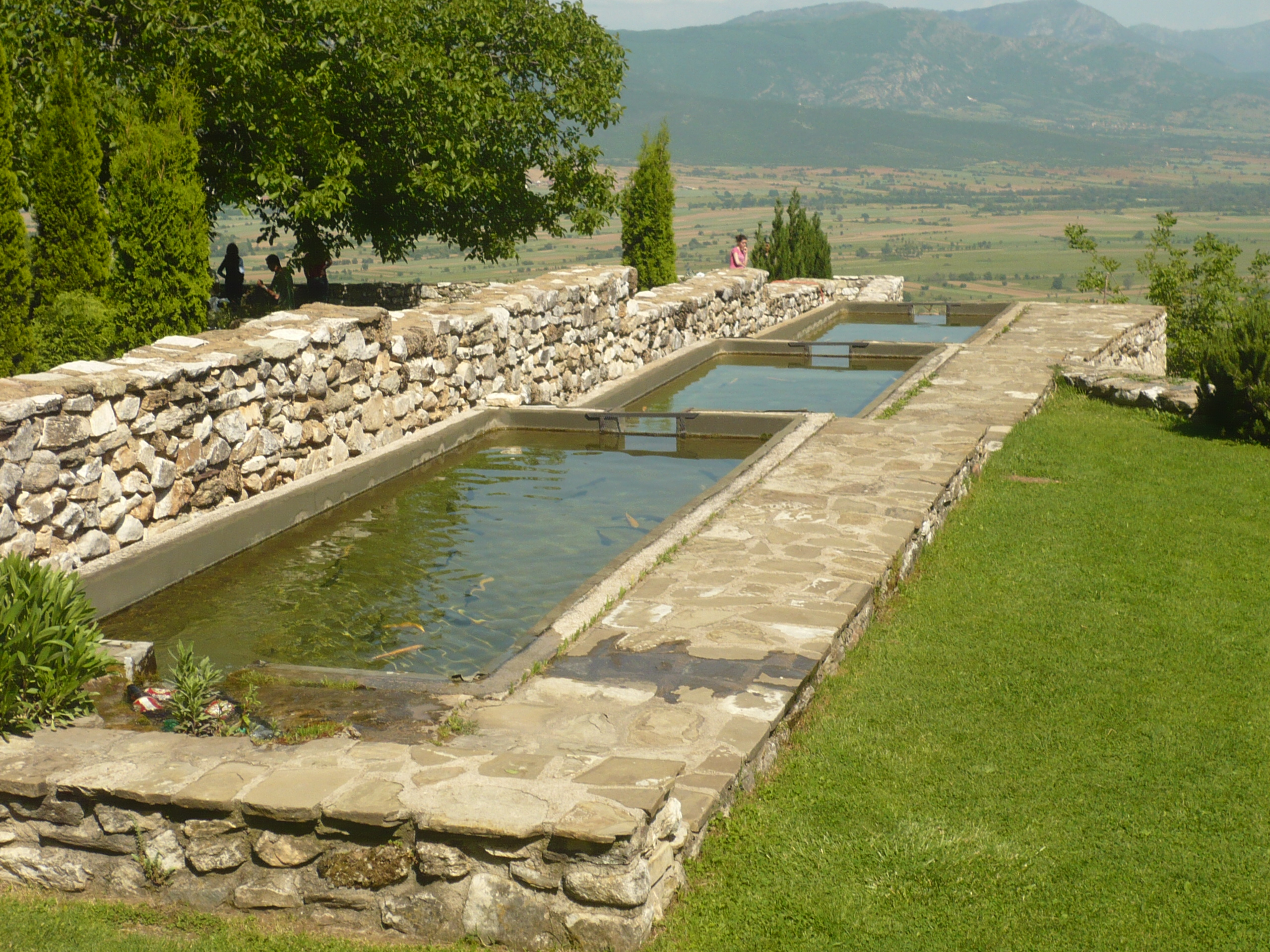 Zrze Monastery, Macedonia